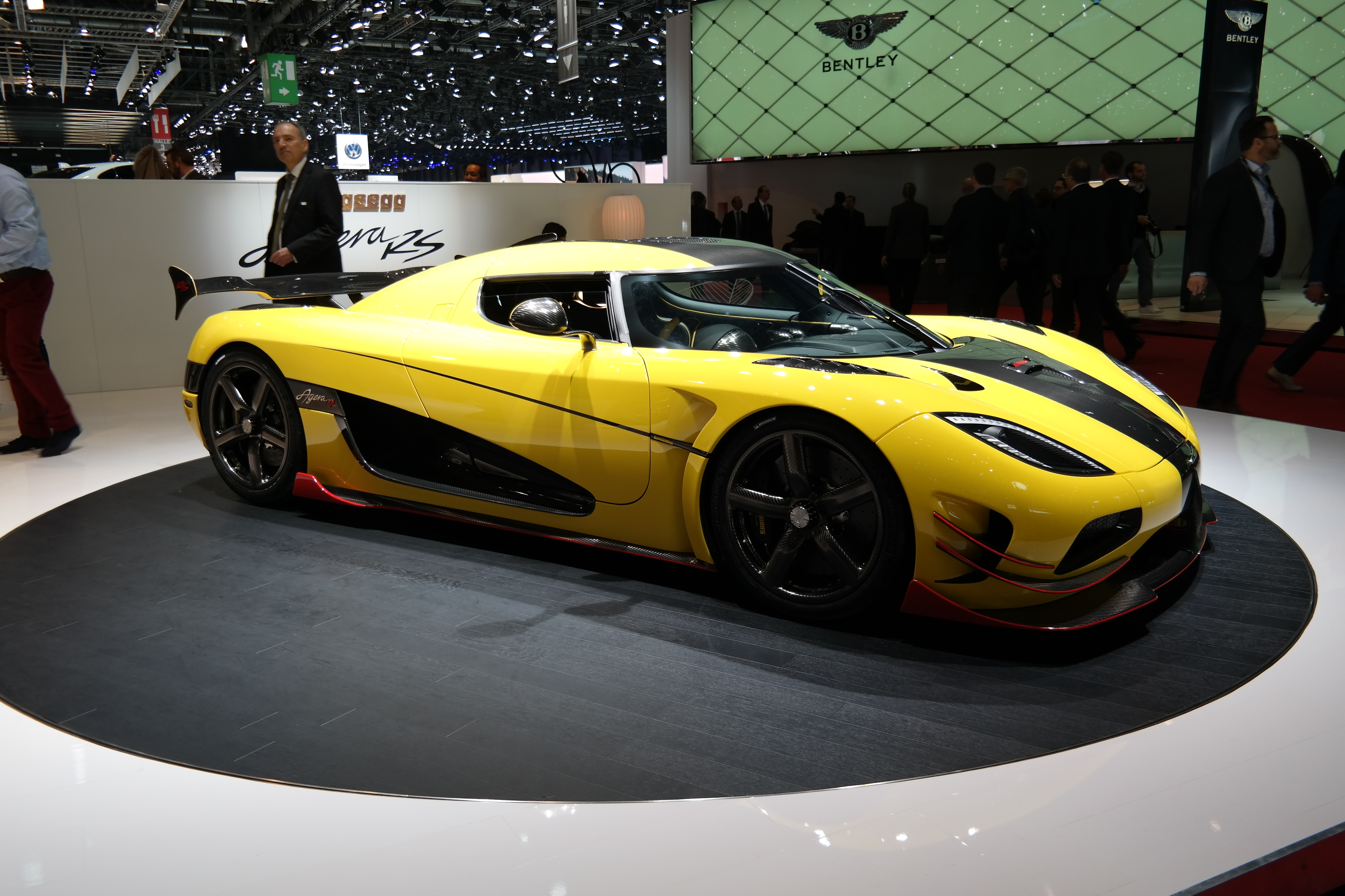 Geneva Motor Show 2016 (photo taken on the first press day)